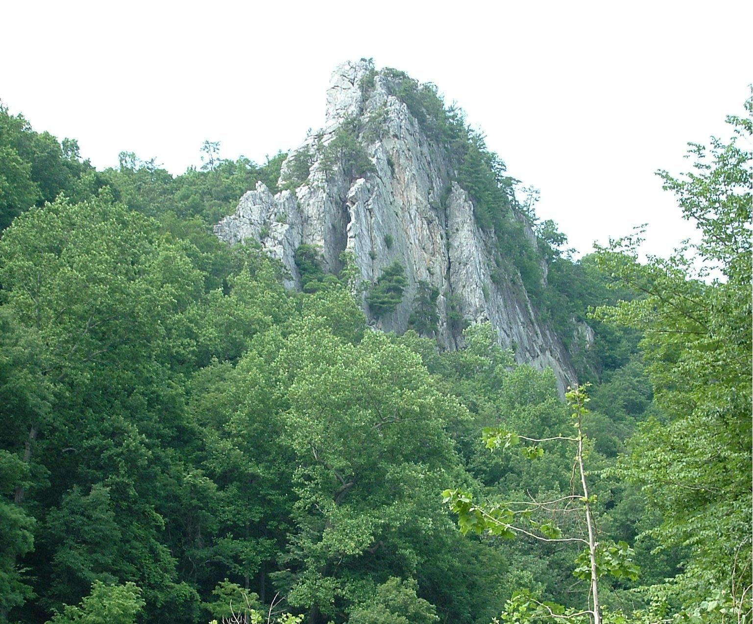 Caudy's Castle Rock viewed from below on the Cacapon River.